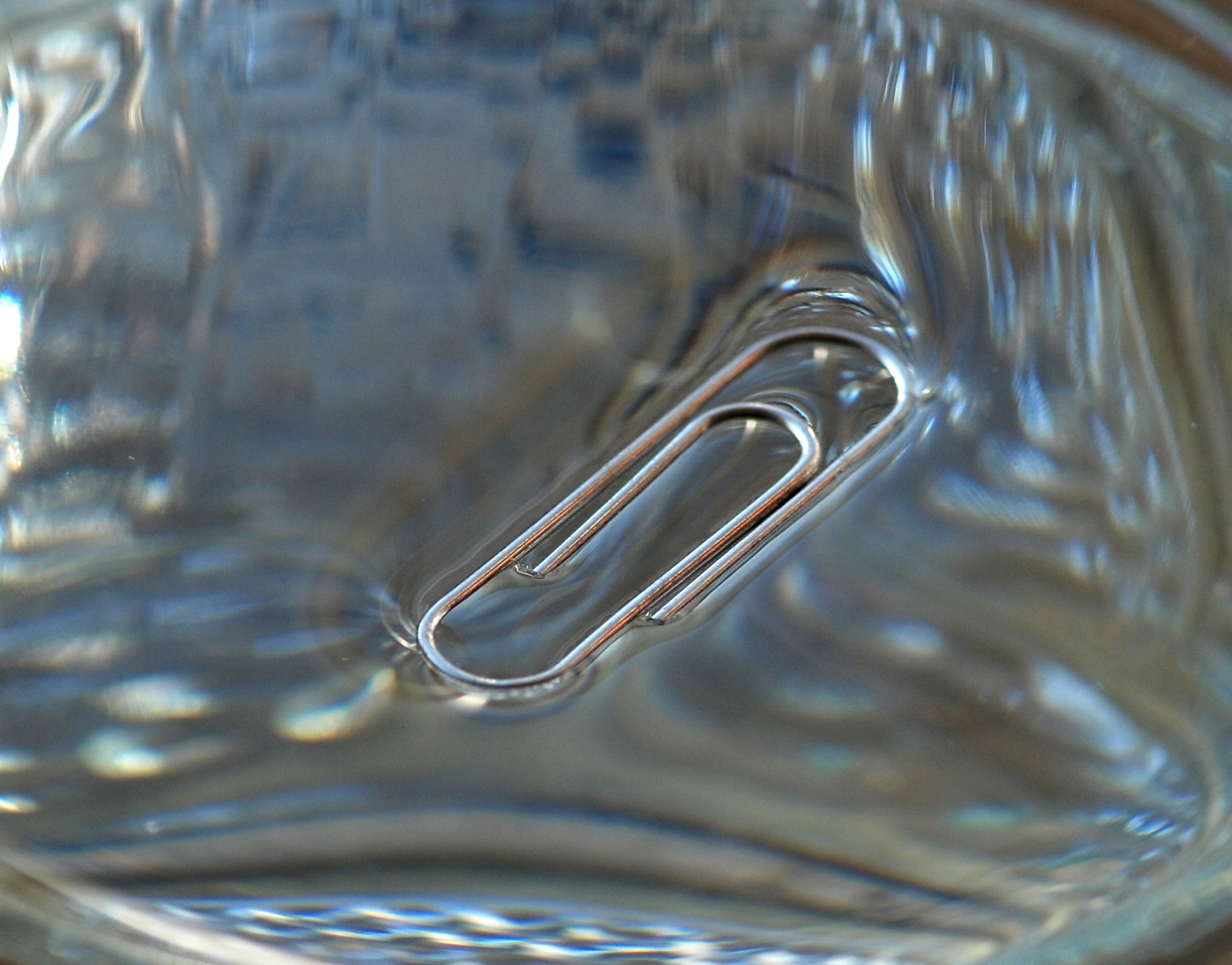 Surface tension: a clip floating in a glass of water